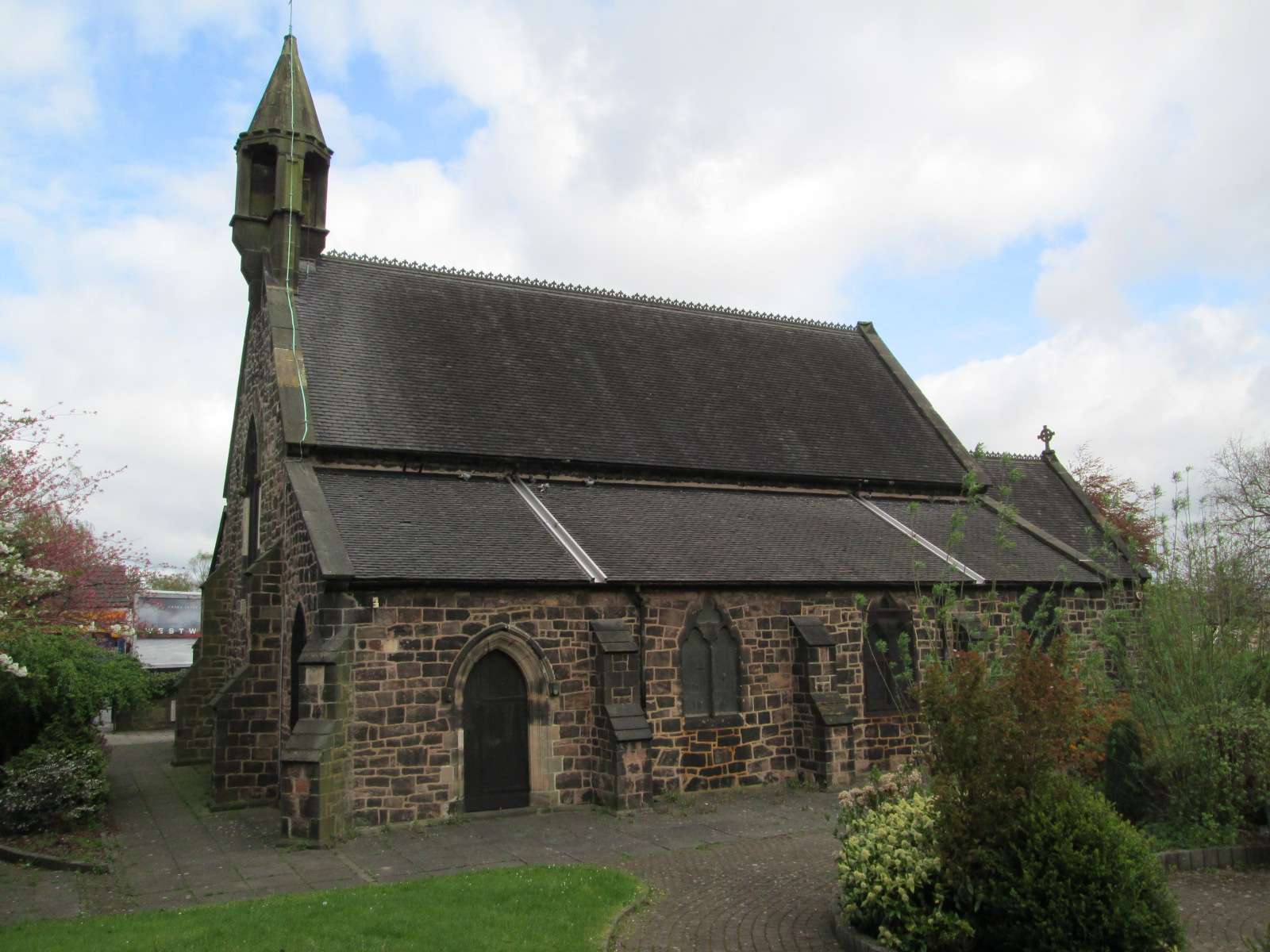 St Saviour's Church, in Smallthorne, Stoke-on-Trent. Viewed from the south.